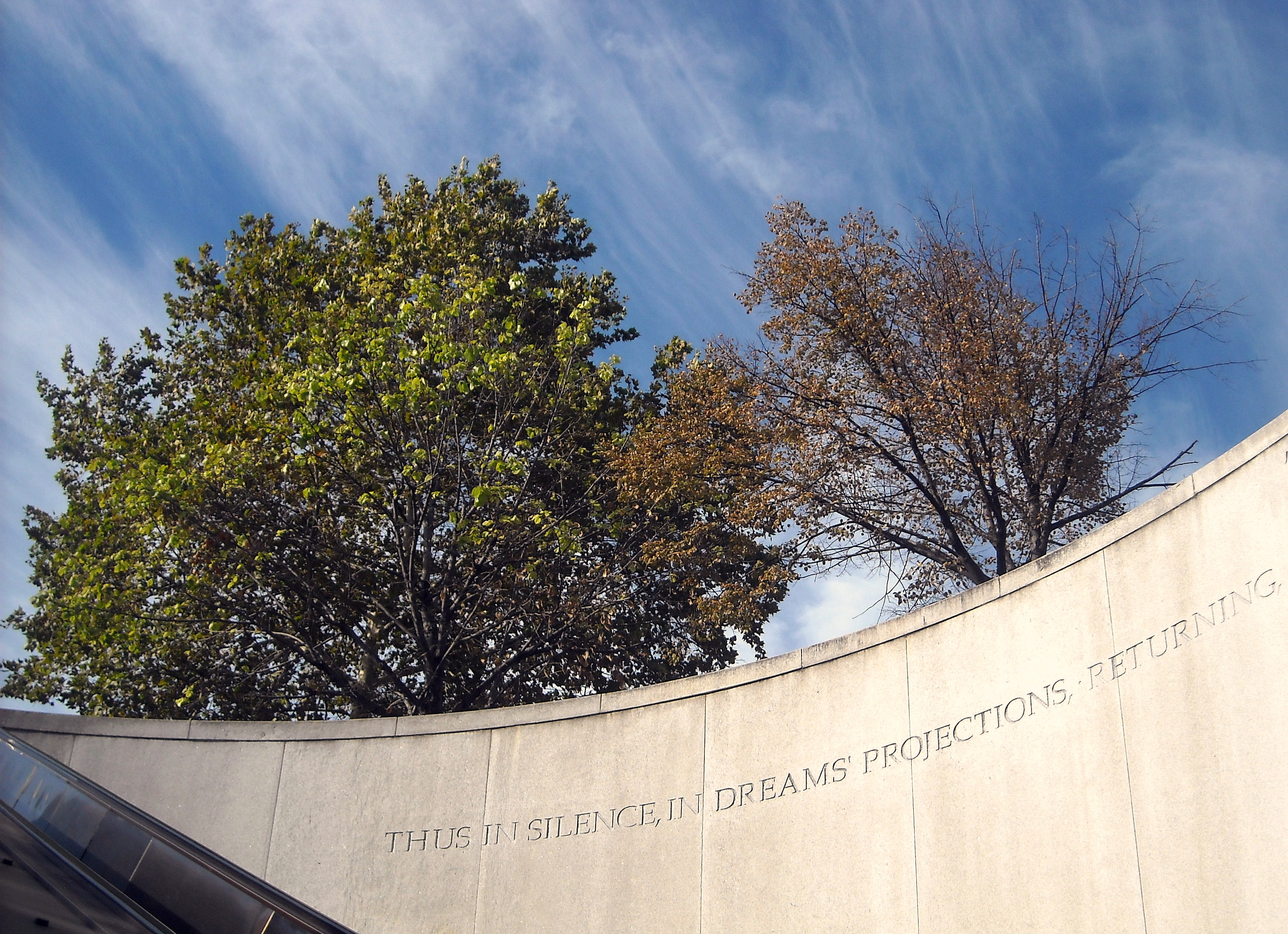 Part of the Walt Whitman quote located on the Dupont Circle Metro entrance in Washington, D.C.